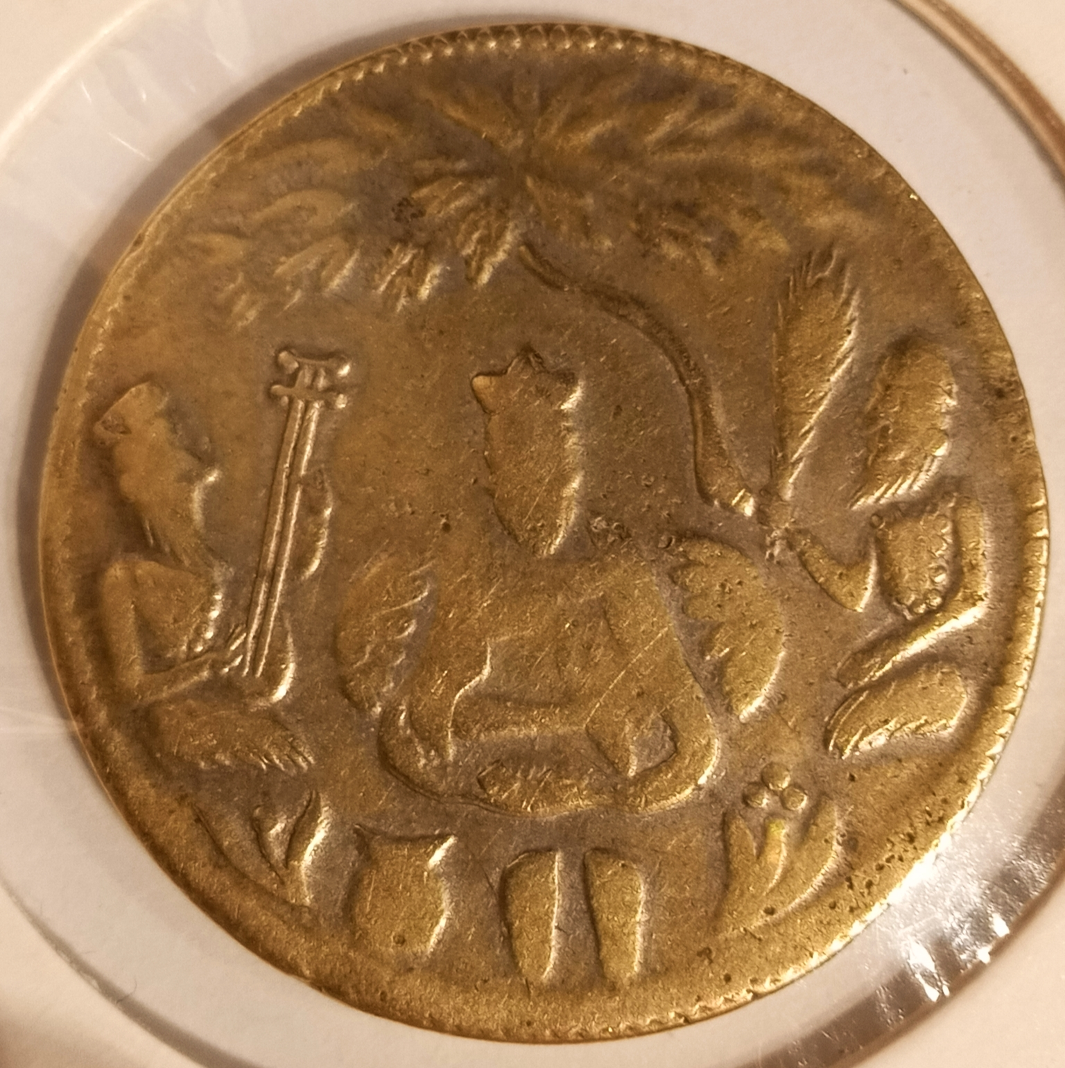 Obverse: Guru Nanak Sahib seated under a tree with his two disciples, Bhai Mardana playing the rebab and Bhai Bala waving a chaur (fly-whisk) as a mark of respect.